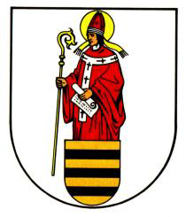 Coat of Arms of/ Wappen von Lengenfeld (Vogtland)